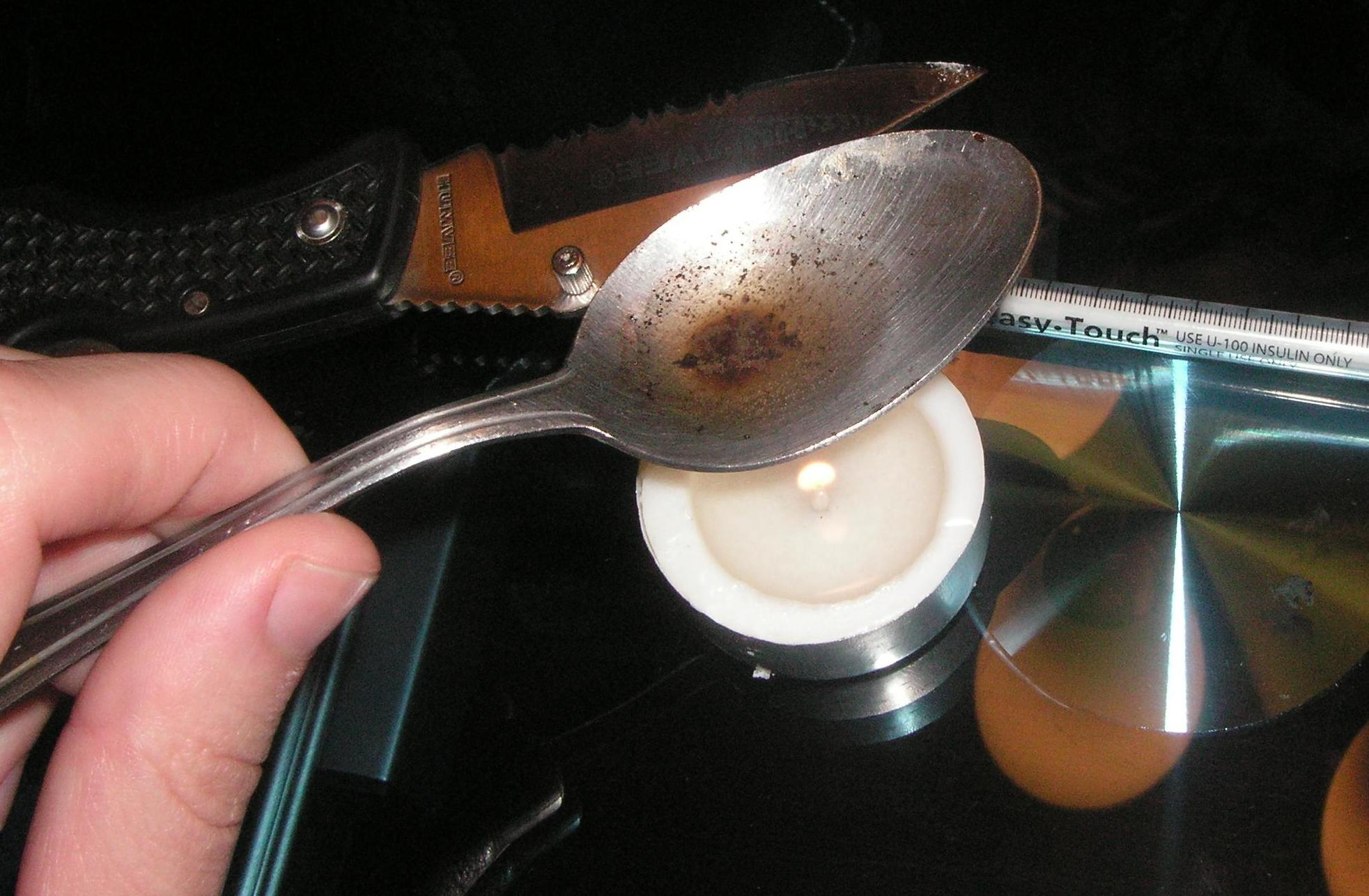 Converting Heroin Tar into "Monkey Water" for Administration through the Nasal Cavities, Rectum, or Veins.